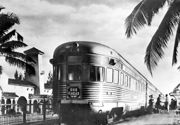 Local call number: N038725 Title: Dixie Flagler: Hollywood, Florida Personal Author: Jonathan Nelson Date: 1941 Physical descrip: 1 photonegative; b&w; 4 x 5 in. Series Title: General collection Repository: State Library and Archives of Florida, 500 S. Bronough St., Tallahassee, FL 32399-0250 USA. Contact: 850.245.6700. Persistent URL